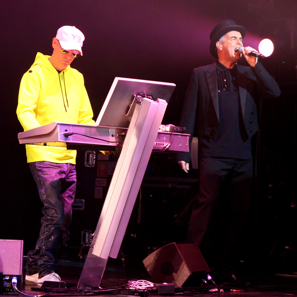 Pet Shop Boys live in concert on October 13, 2006. Taken at The Opera House, Boston. Photo by Kevin Church.